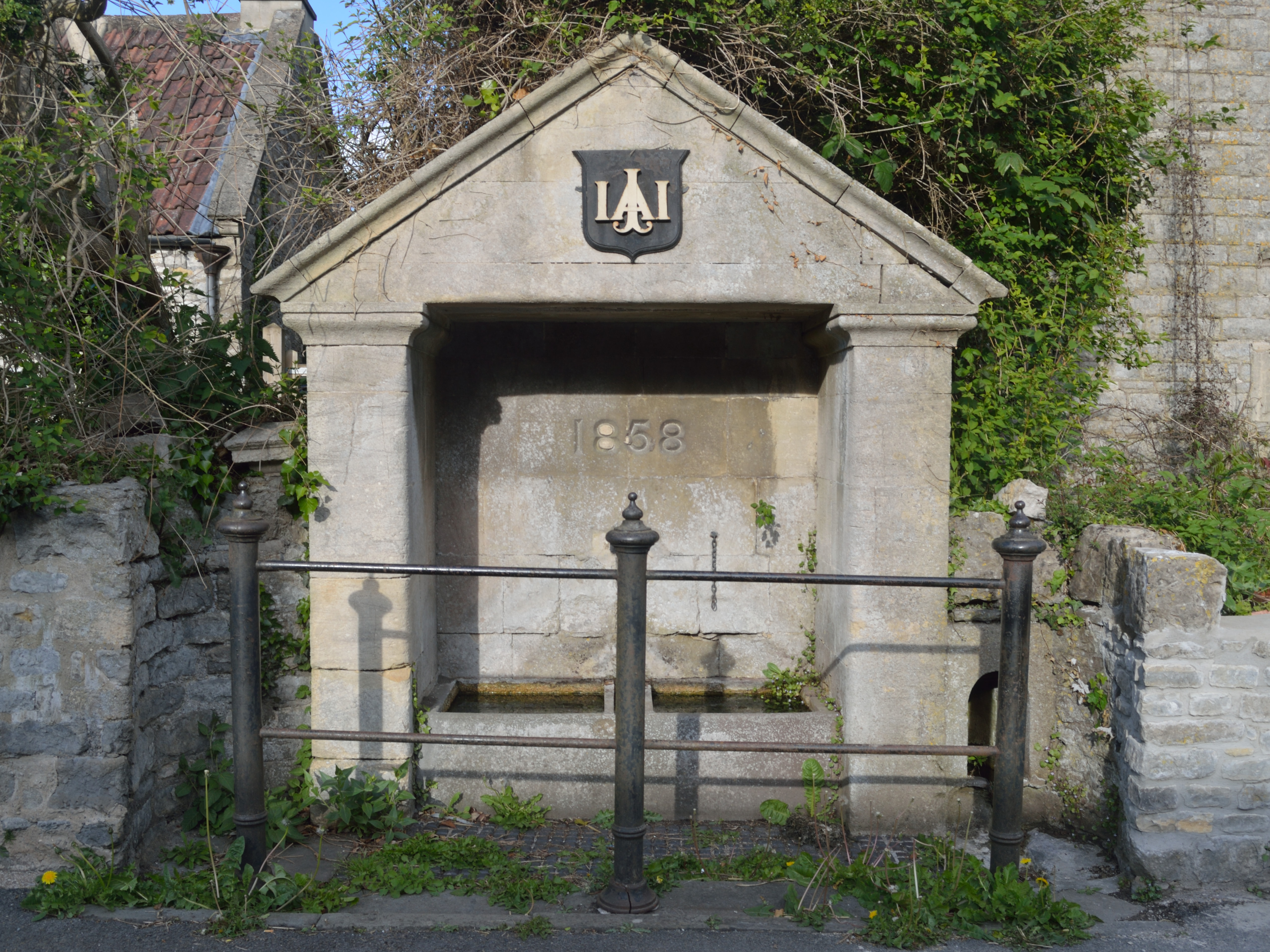 Village pump, trough and railings, in front of 6-7 Bath Road, Kelston. The symbol of the Inigo-Jones Estate is above the trough. As of 2020, goldfish were being kept in the trough.